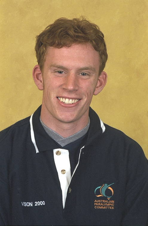 Portrait of Australian track and field athletics competitor Kieran Ault-Connell, 2000 Australian Paralympic Team athlete